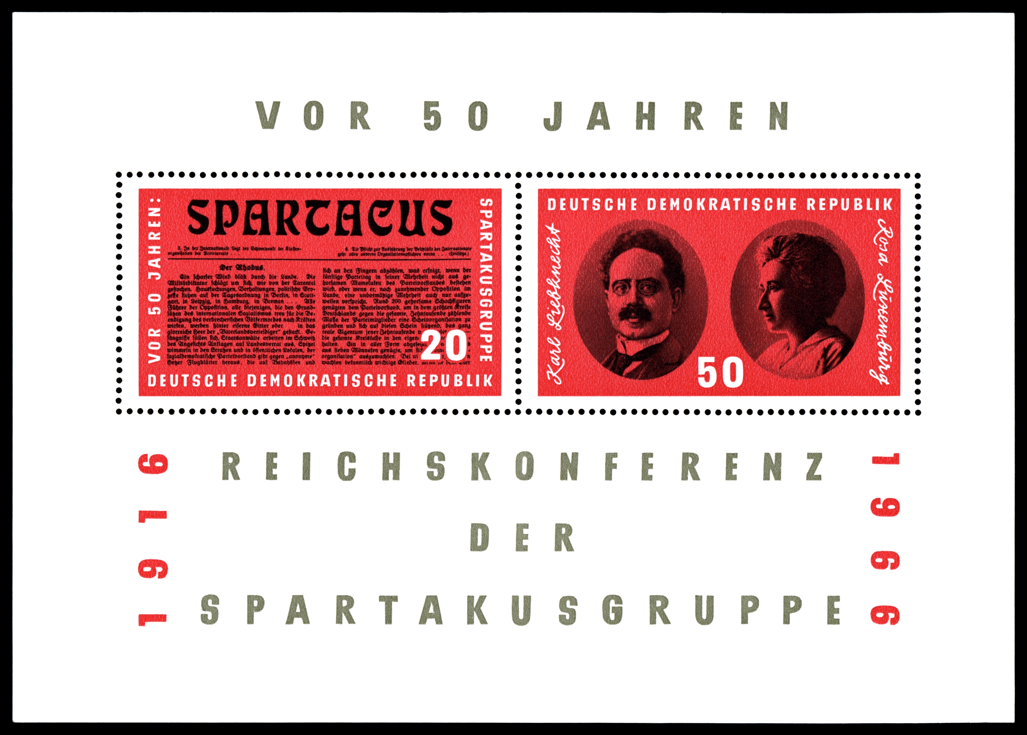 Ausgabepreis: 70 Pfennig First Day of Issue / Erstausgabetag: 3. Januar 1966 Auflage: 2.000.000 Entwurf: Weiß Druckverfahren: Rastertiefdruck Michel-Katalog-Nr: Ländercode-MiNr: Block 25 Licensing This file is most likely NOT in the public domain. It has been marked for review, and will be deleted in due course if the review does not find it to be in the public domain.This file was previously considered to be in the public domain as a German stamp; it is possible that it is in the public domain for other reasons, in which case a new rationale will be applied as part of the review process. See below for the previous rationale. Previous public domain rationale, no longer applicable This stamp is in the public domain in Germany because it was released by the postal administration of the German Democratic Republic or the Soviet occupation zone (Deutschen Post der DDR) whose legal successor is the Federal Republic of Germany. Thus it is an official work according to German copyright law (§ 5 Abs. 1 UrhG).